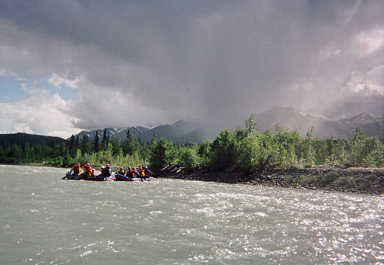 The littlest of clouds have unerring aim. Shower stall is departing, we are wet. A short float between access points on the upper Tatshenshini River, Yukon, Canada.